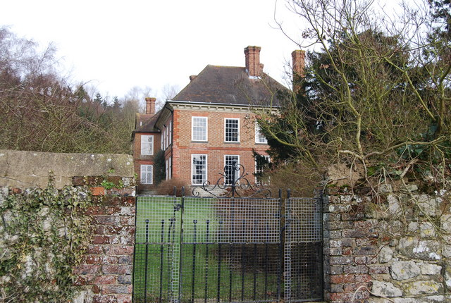 Buston Manor, Hunton, Kent. A Grade II* listed building.